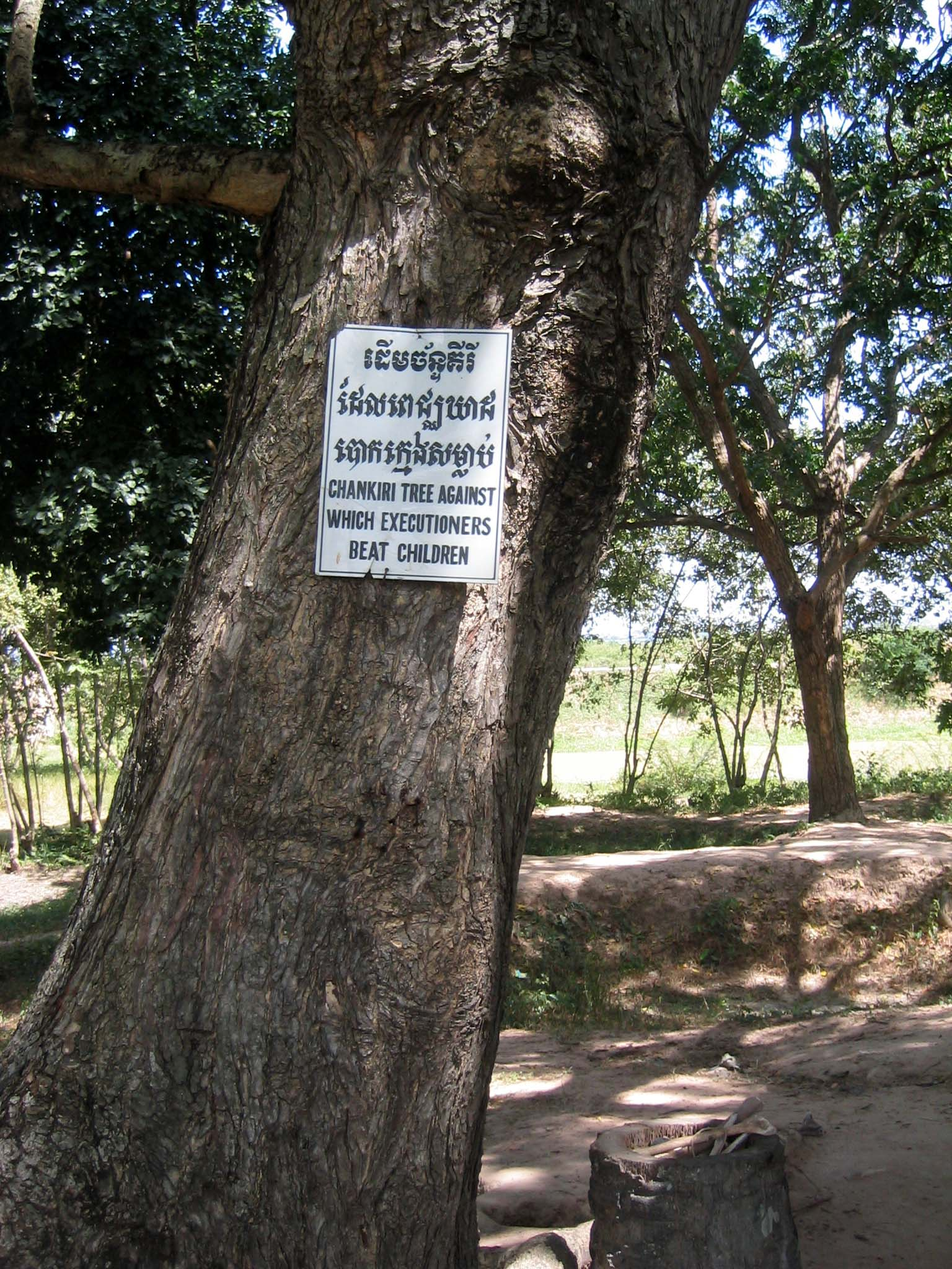 Photographed and uploaded to English Wikipedia by Michael Darter